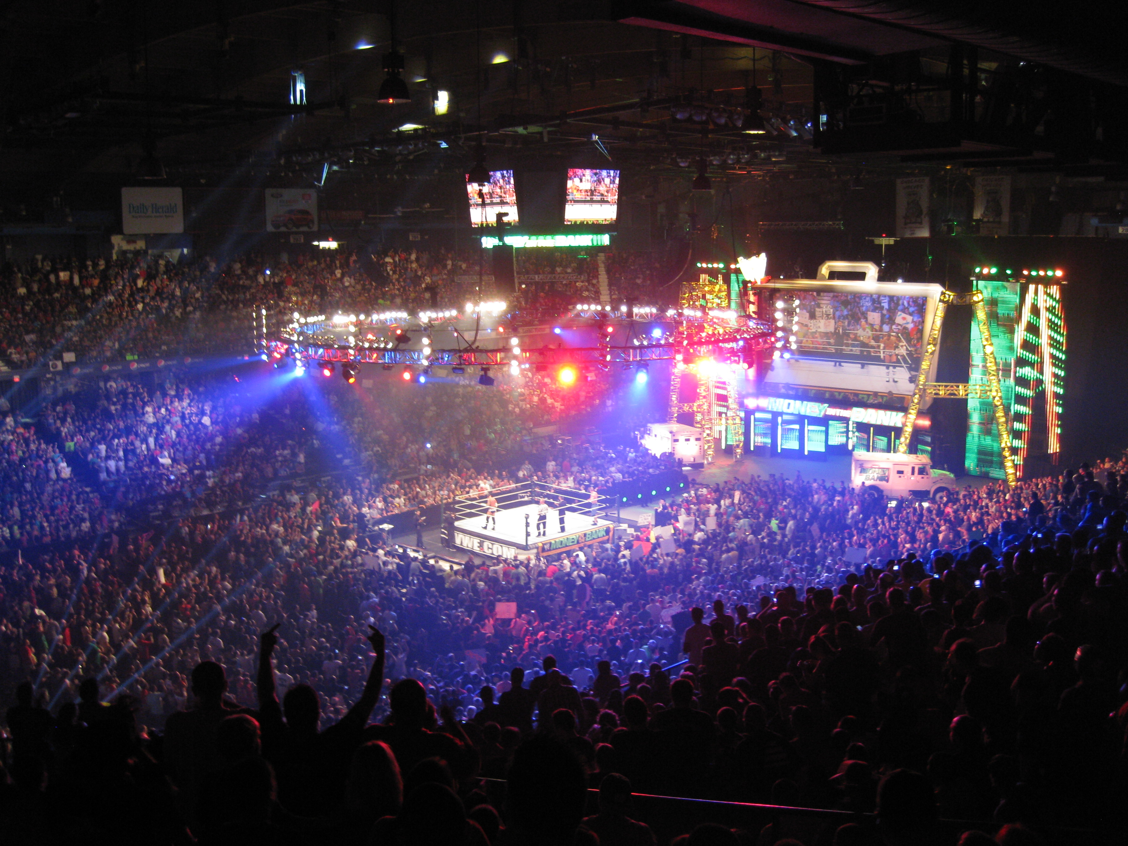 WWE Money in the Bank 2011